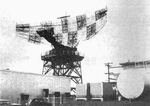 Avco AN/FPS-24 Radar